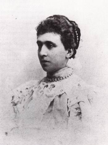 Maria Antonia Duchess of Parma (born Infanta Maria Antonia of Portugal, 1862–1959), 2nd wife of Robert Duke of Parma.